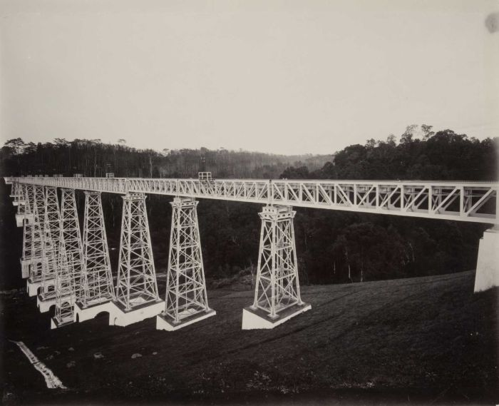 Railway bridge across the Cikubang river